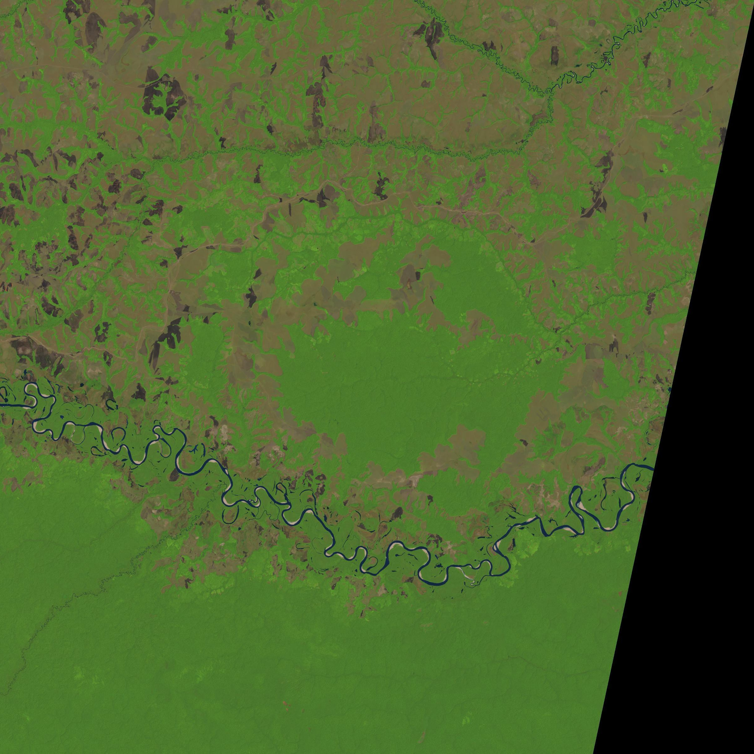 Landsat image of the Vichada Structure, a probable eroded impact crater in Vichada Department, Colombia, South America.